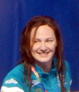 Cate Campbell during the medal ceremoy for the 100 metres freestyle event at the 2015 World Aquatics Championships in Kazan.